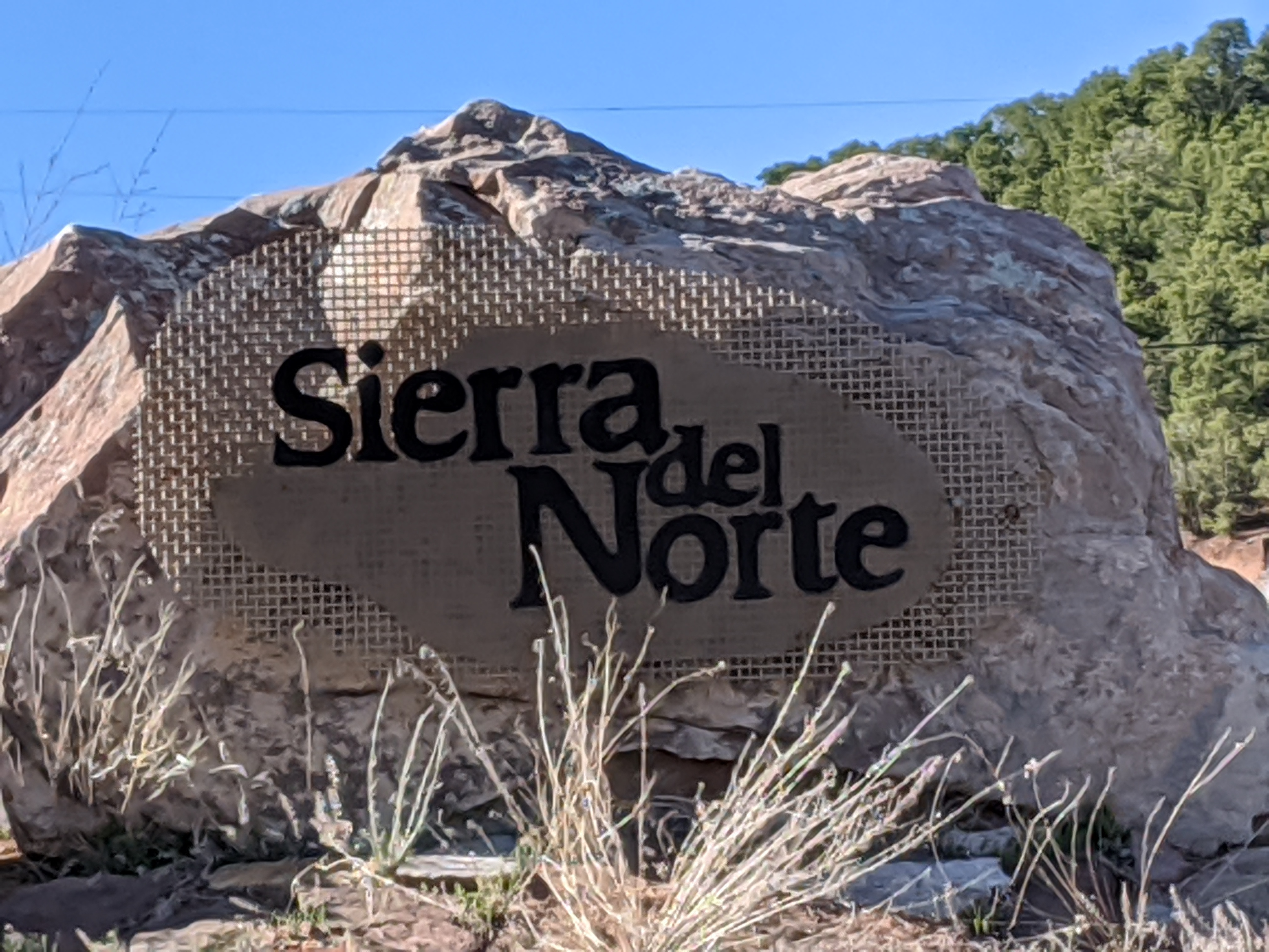 Sierra del Norte sign near trailhead parking lot